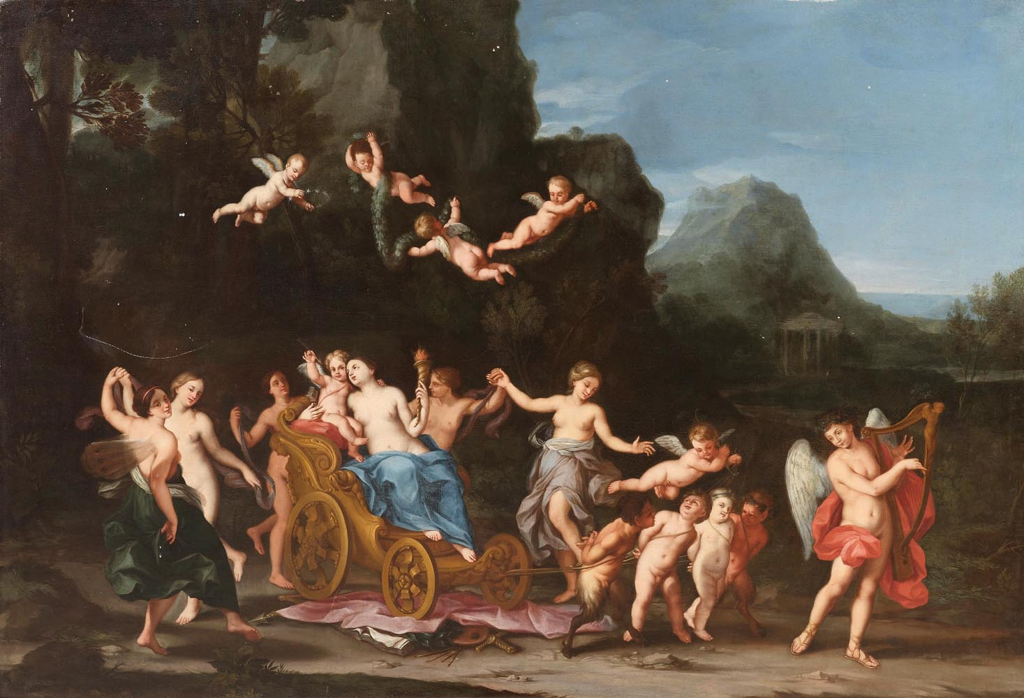 Triumph of Venus and Cupides